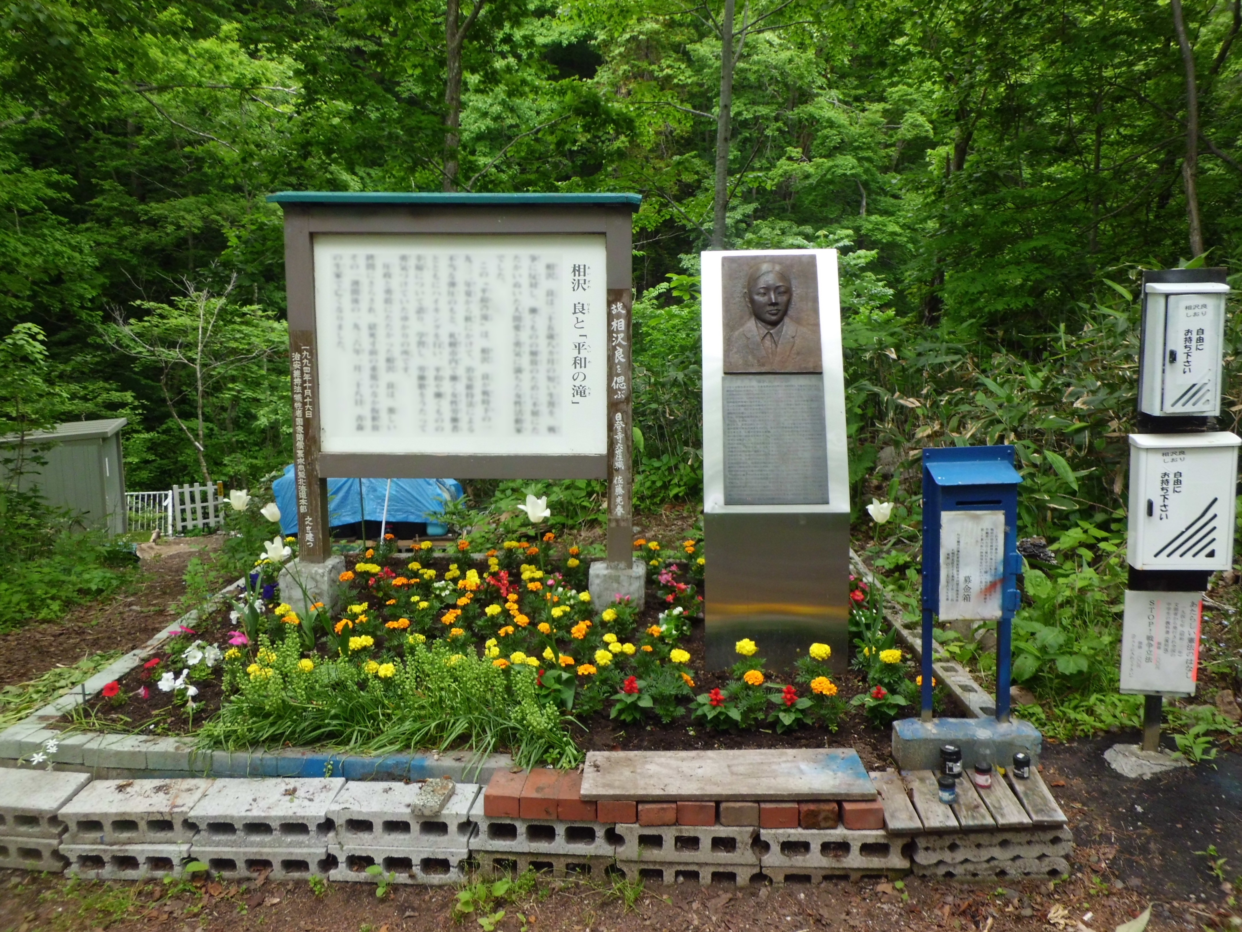 Monument of Ryo Aizawa at Heiwa